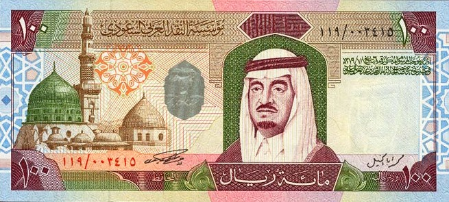 1977 Saudi Riyal, reverse